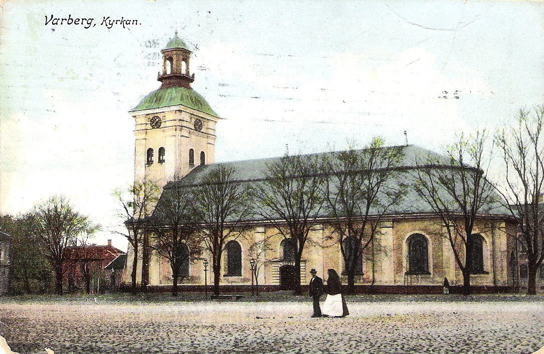 Postcard of Varberg Church, Sweden